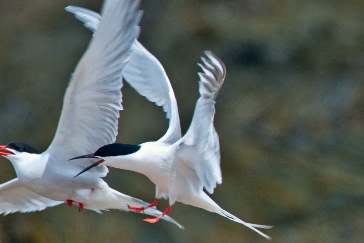 Roseate Tern chasing a Common Tern. Petit Manan Island, Maine Coastal Islands NWR. Kirk Rogers/USFWS.